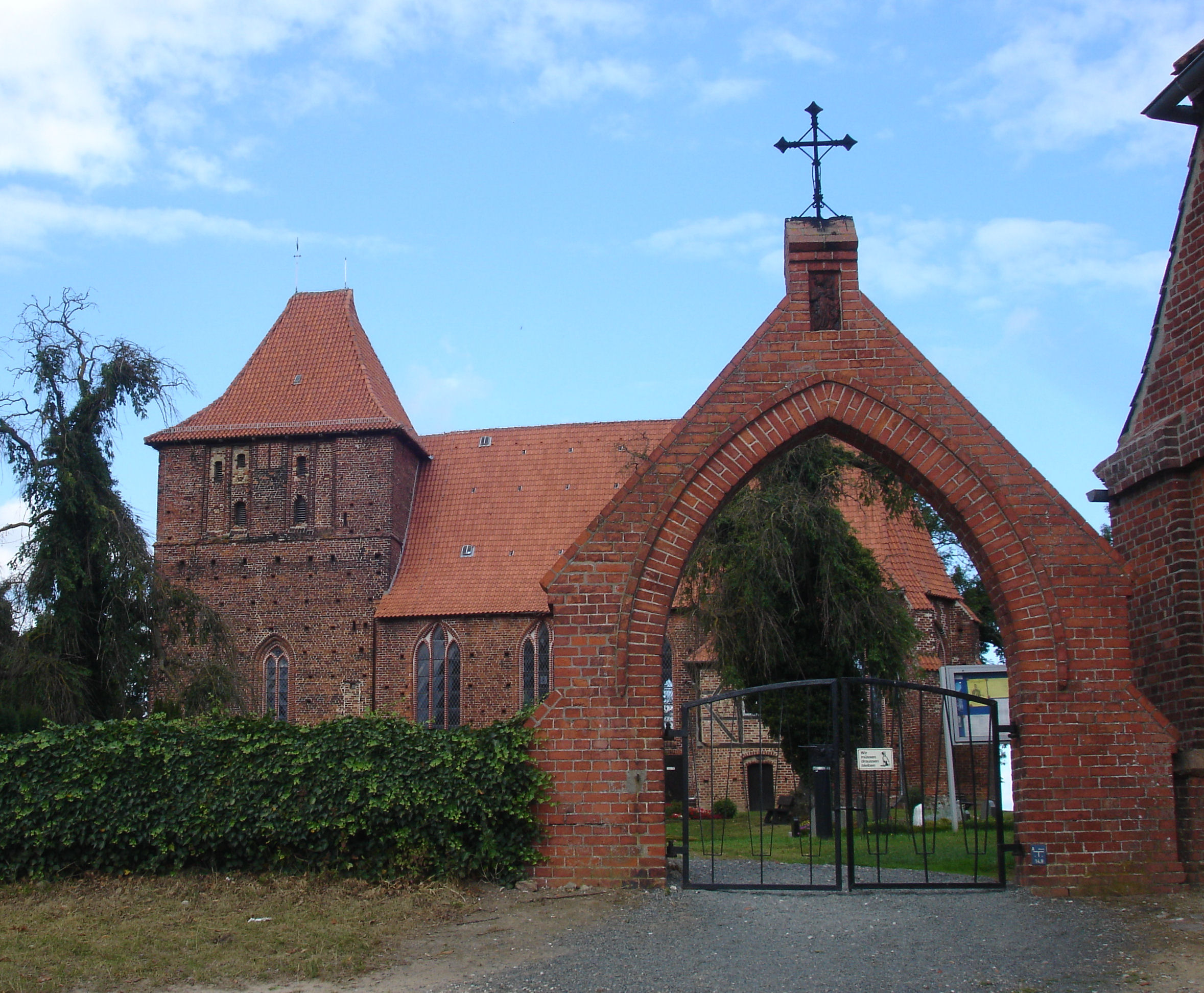 Church in Hohenkirchen, district Nordwestmecklenburg, Mecklenburg-Vorpommern, Germany